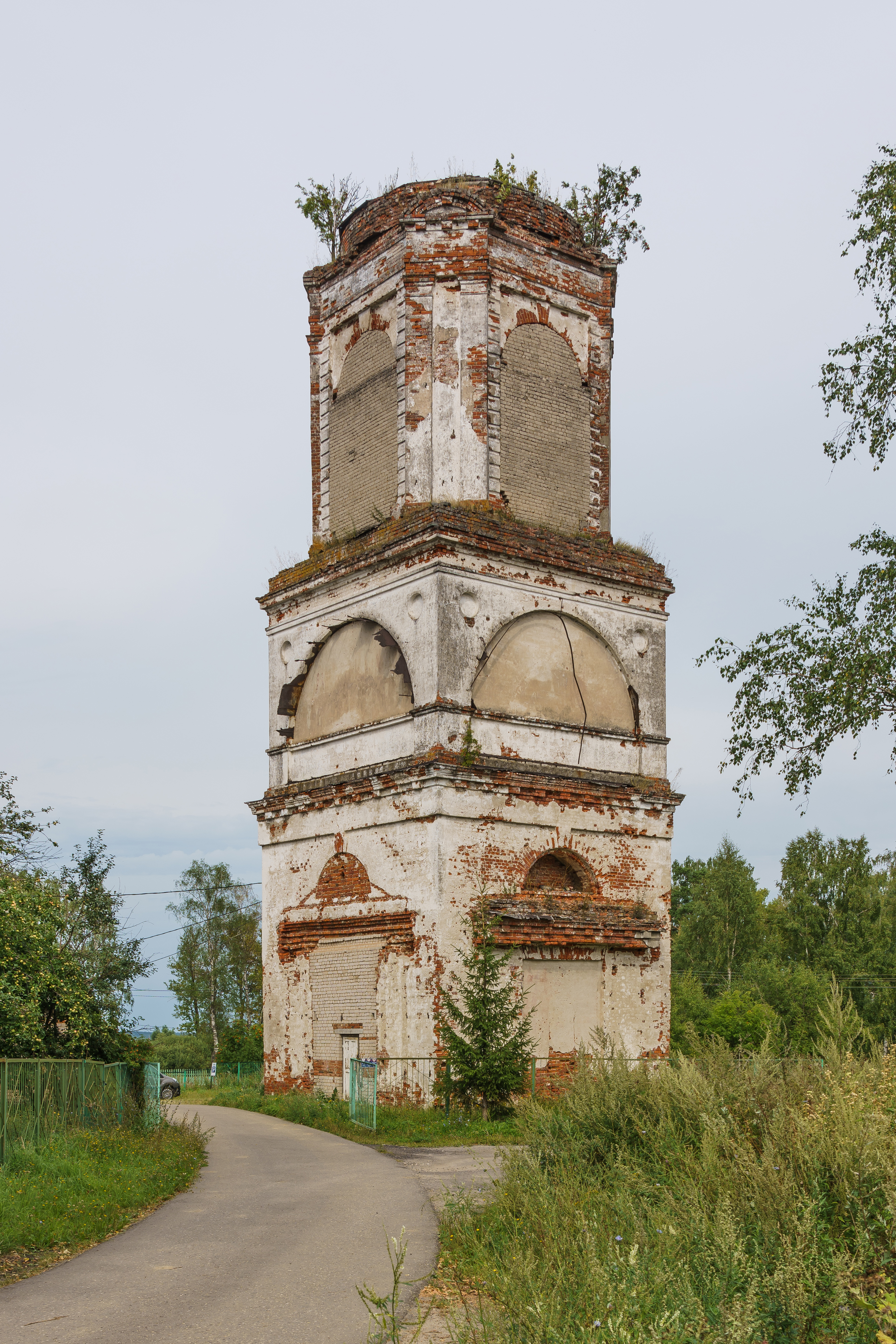 Bell tower in Khrenovo, Ivanovo Oblast, Russia.